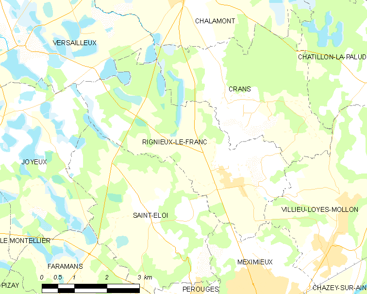 Map of French commune: Rignieux-le-Franc Map commune FR insee code 01325.png